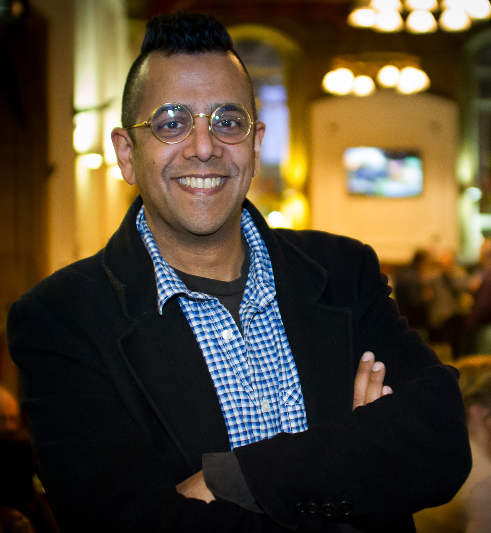 Simon Singh during his talk about his book "The Simpsons and their Mathematical Secrets"